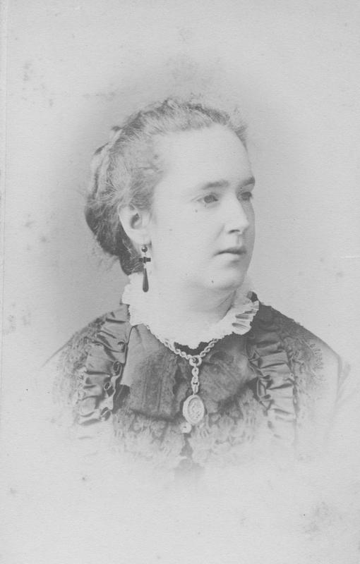 Title Amelia Elizabeth du Pont Date Created (start) 1860 Date Created (end) 1880 Former owner Du Pont, Pierre S. (Pierre Samuel), 1870-1954 Corporate Photographer M. & W. Garrett, photographer Note Daughter of Ann Ridgely and Charles Irénée du Pont. Married Eugene du Pont, son of Joanna Smith and A.I. du Pont. Old ID number: P_D938 eu/i Subject(s) - Name Du Pont, Amelia, 1842-1917 Find all items with name(s) M. & W. Garrett, photographer Du Pont, Pierre S. (Pierre Samuel), 1870-1954 Du Pont, Amelia, 1842-1917 Genre portrait photographs Language English Type of resource still image Extent 1 photographic print : b&w Repository Audiovisual Collections and Digital Initiatives Department, Hagley Museum and Library